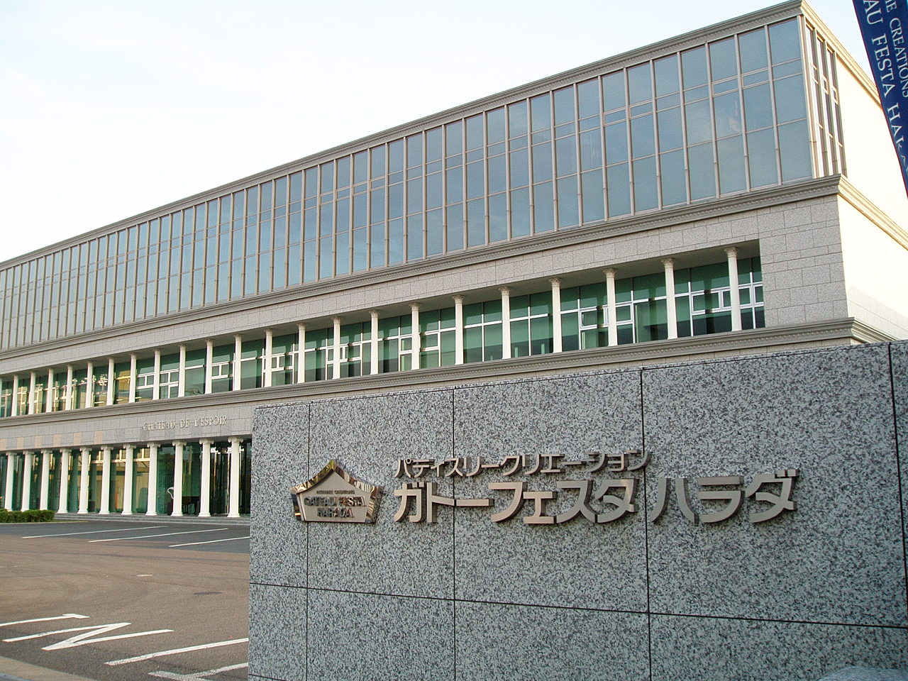 A factory ("CHATEAU DE L'ESPOIR") of Gateau Festa Harada, a confectionery company headquartered in Shinmachi, Takasaki, Gunma Prefecture, Japan.